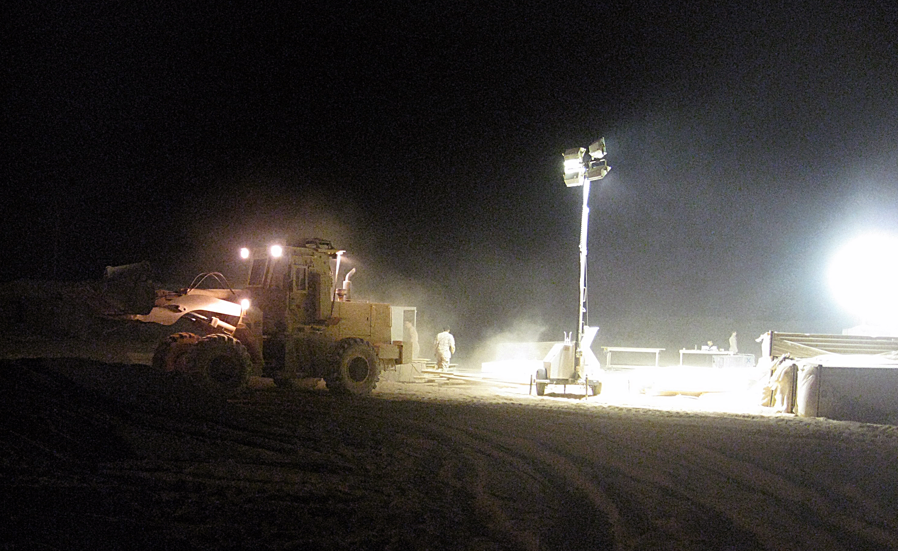 COMBAT OUTPOST GANNON II, Iraq (July 8, 2008) – Working through dust, day and night, Marines with Engineer Company, Combat Logistics Battalion 6, 1st Marine Logistics Group finished construction on Combat Outpost Gannon II by the end of July. Marine leaders have high expectations for COP Gannon II to successfully constrict insurgent activity along the border and help open up local Iraqi free trade. (Photo by Capt. Lauren S. Edwards)